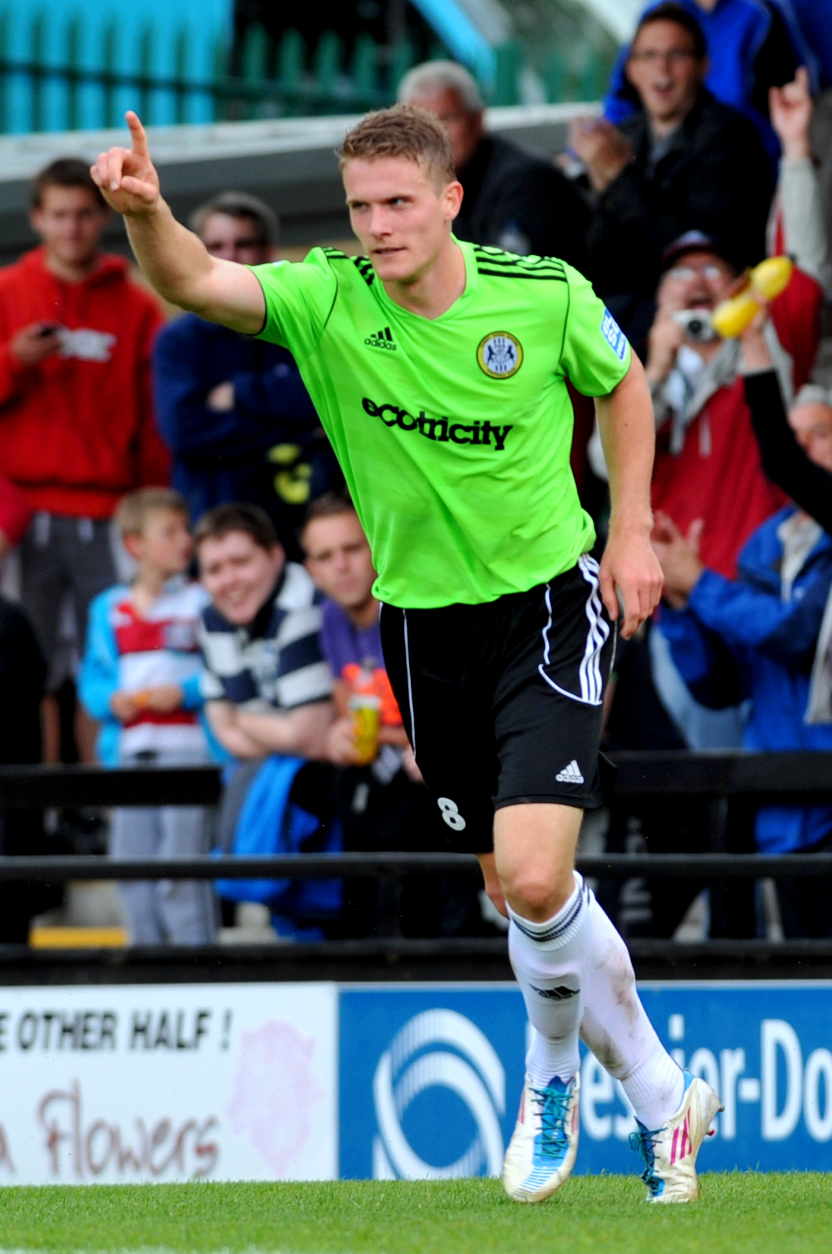 Yan Klukowski playing for Forest Green Rovers during the 2012/13 season.